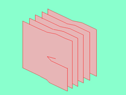 Simplified atomic plane diagram of a screw dislocation. Diagram by Wikityke